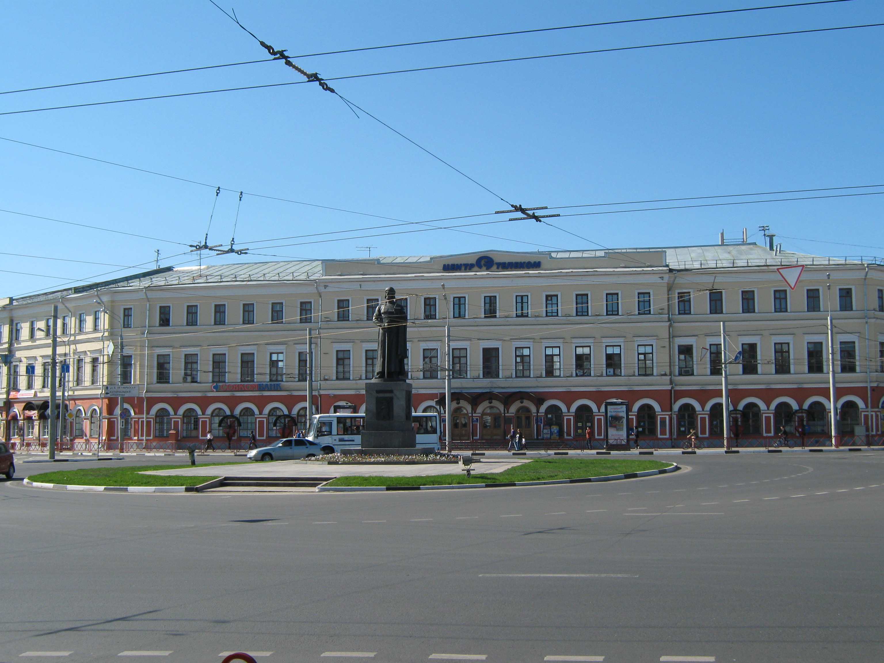 Yaroslavl General Post Office building, which was formerly the Pastuhov House. Yaroslav the Wise Monument in the front of the building on the Bogoyavlenskaya Square.